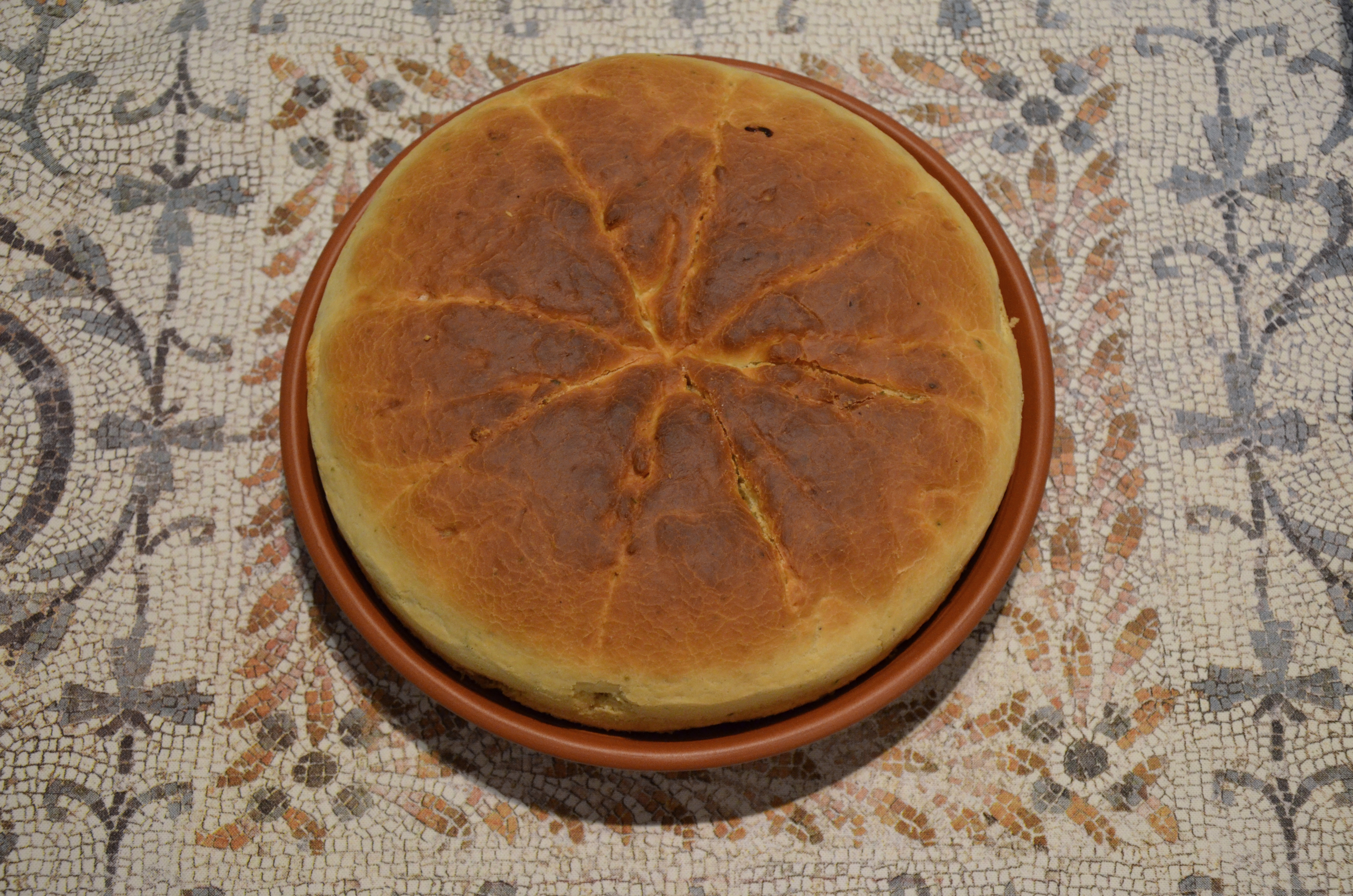 Amongst the Greeks it is a bread called 'soft' which is made with a little milk and sufficient olive oil and salt. The dough must be made supple. The bread is called 'Cappadocian' since for the most part 'soft' bread is made in Cappadocia. The Syrians call such bread lakhma and in Syria this bread is delicious through being eaten warm. Ingredients: 600g strong white flour 125ml warm water 1½ tsp dried yeast 1 tsp sugar 60ml olive oil 75ml warm milk ½ tsp sea salt Method: In a cup, dissolve the sugar in the warm water (which should be at or just slightly above body temperature). Sprinkle the dried yeast on top of this, cover and leave in a warm dry place for about 15 miutes, until the mix starts frothing. Sift the flour into a large bowl, mix in the salt and then create a crater in the middle. Pour the yeast mix, the olive oil and milk into this. Gradually mix the flour into the liquid ingredients to form a dough. Knead this firmly for about five minutes (adding more flour or water as necessary) until the dough is firm. Take a 500g bread tin and grease liberally with butter before lining with a dusting of flour. Press the dough into the bottom of the tin, cover with a cloth and leave to stand in a warm place for about an hour until it has risen. Bake in an oven pre-heated to 200°C for about 40 minutes until the crust is a pale golden colour. This loaf should have a soft centre and is excellent with soups.